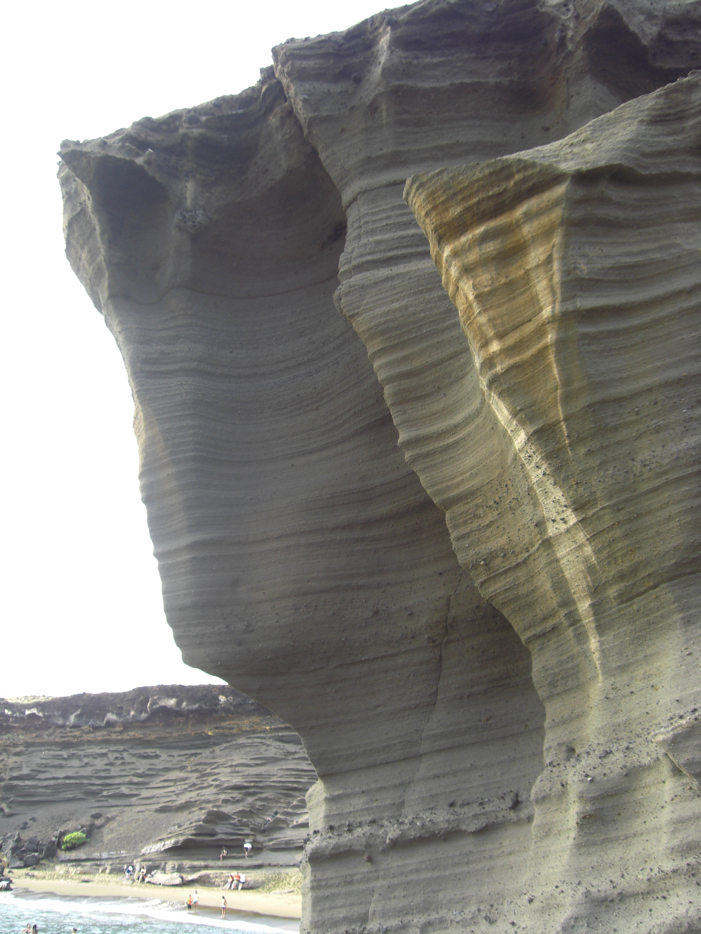 The remains of Puʻu Mahana, cinder cone erupted about 50,000 years ago, faces the Pacific Ocean - Hawai’i (USA). The olivine, a common silicate, gives to the seashore a rare light green sand, which wave after wave dissolves, and settles down at the bottom of the sea.